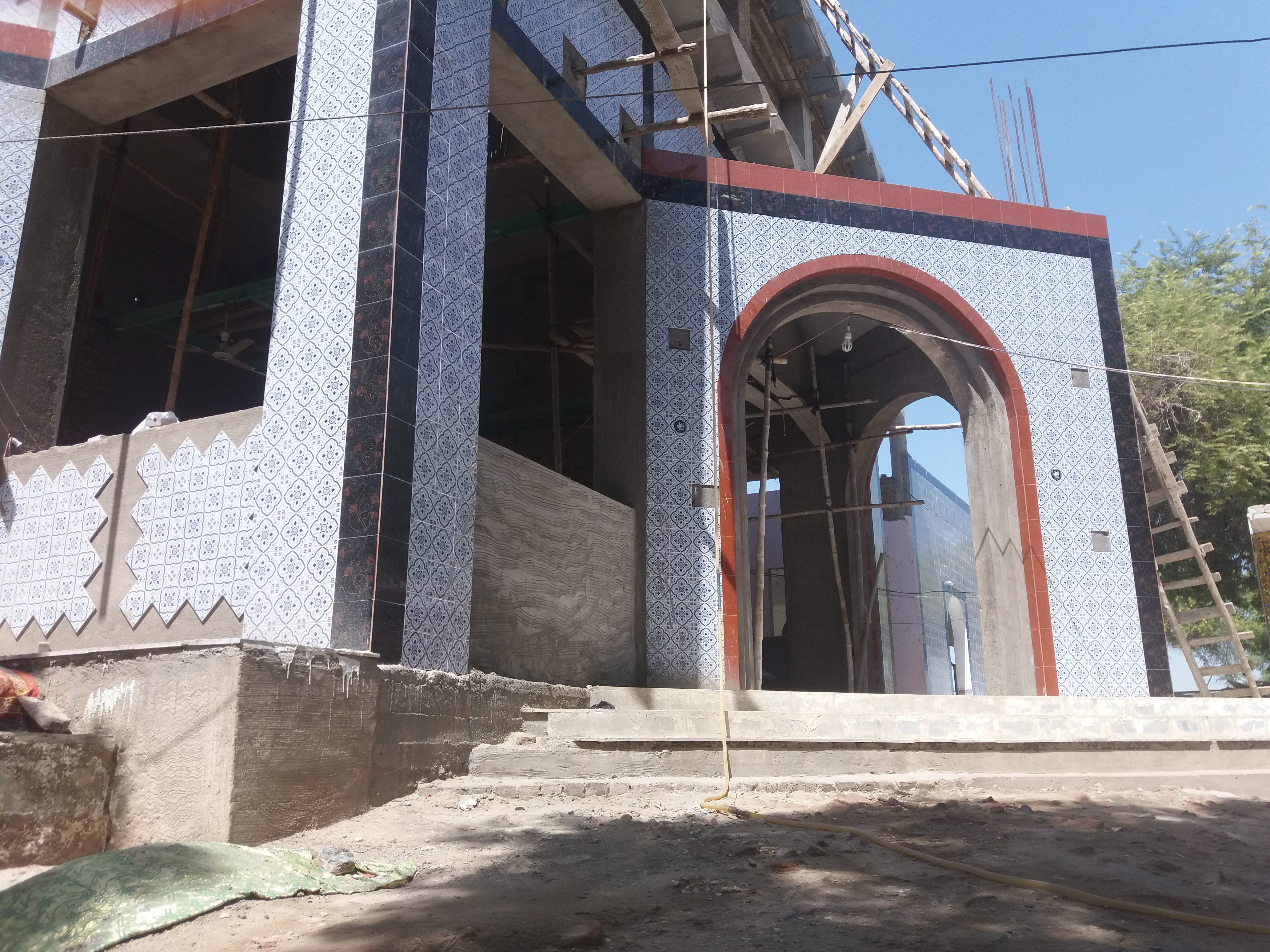 Front view of the tomb This is a photo of a monument in Pakistan identified as the SD-58